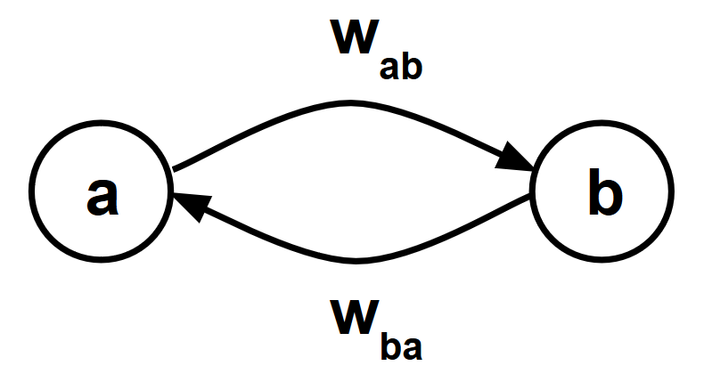 The graph consists of pairs of weighted directed edges.